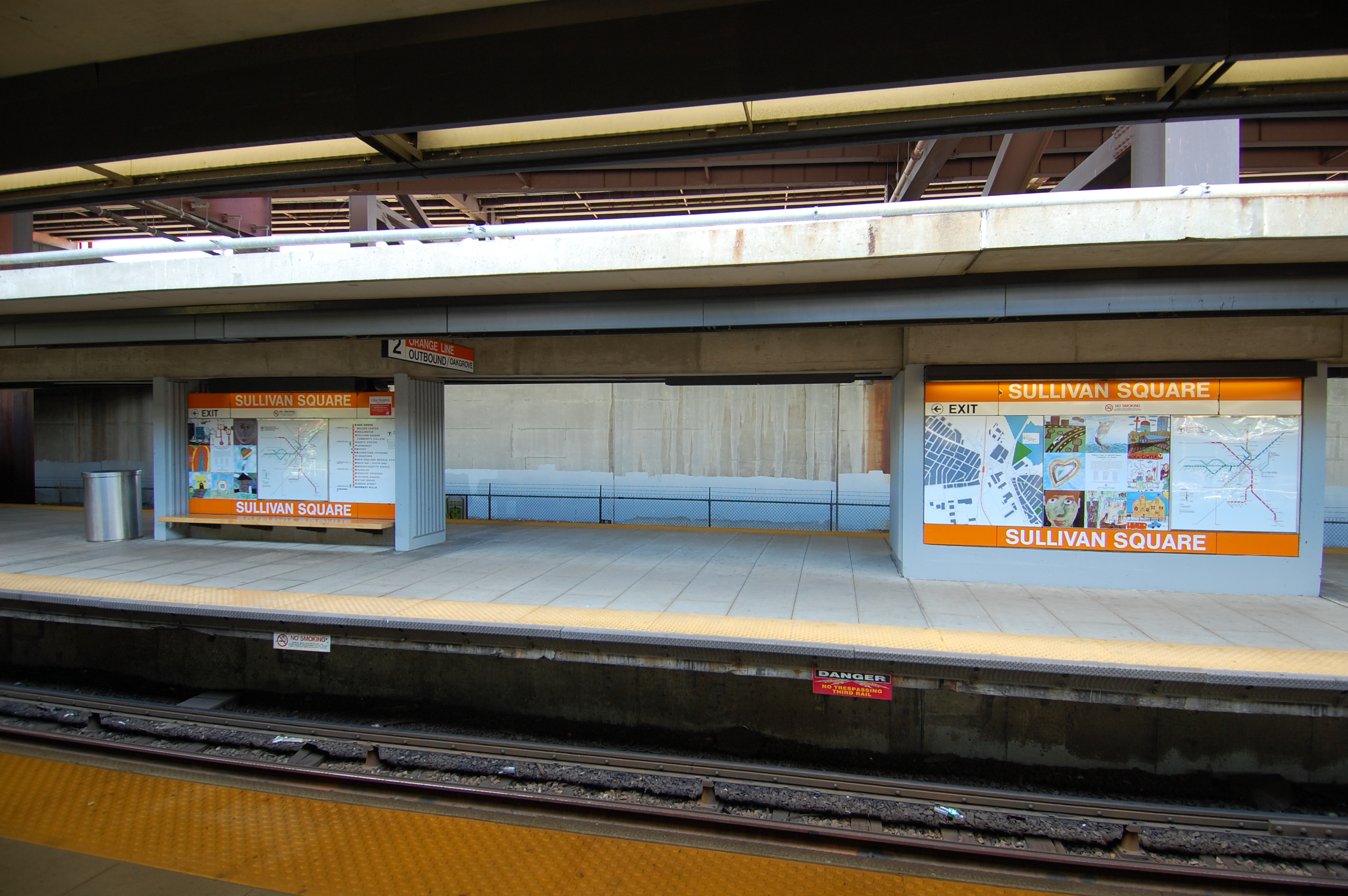 The Orange Line platforms at Sullivan Square.